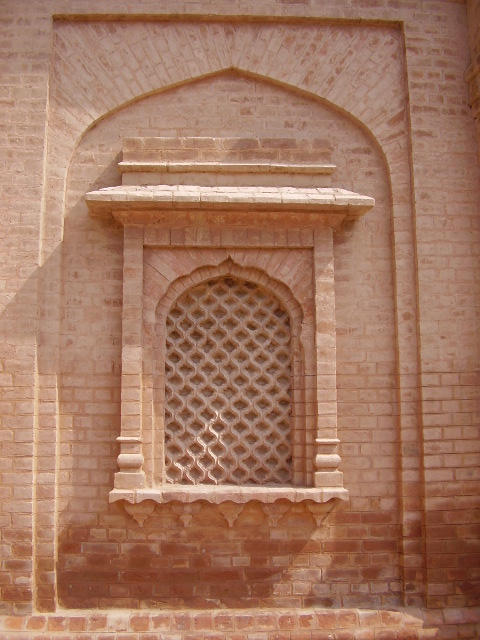 Window design in Islamia College Peshawar